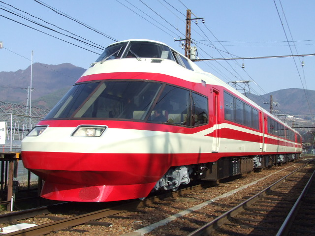 Series 1000 -LTD Exp. YUKEMURI-,Nagano Railway,Japan